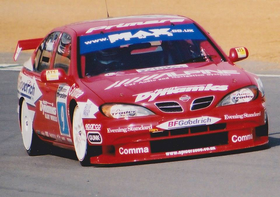 BTCC 2000 Matt Neal Nissan Primera at Brands Hatch